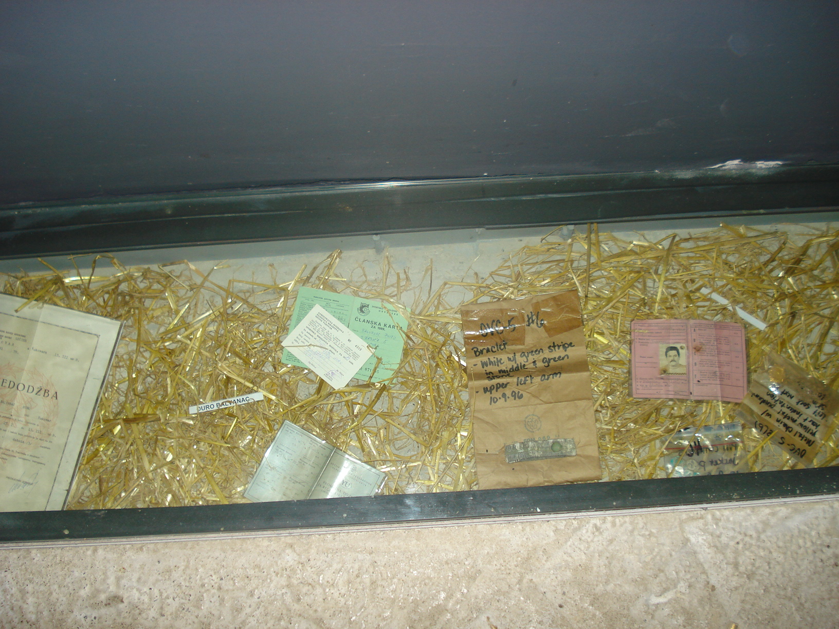 Ovčara memorial: Documents and personal belongings of the victims who died in Ovčara during JNA's invasion of Vukovar 1991.